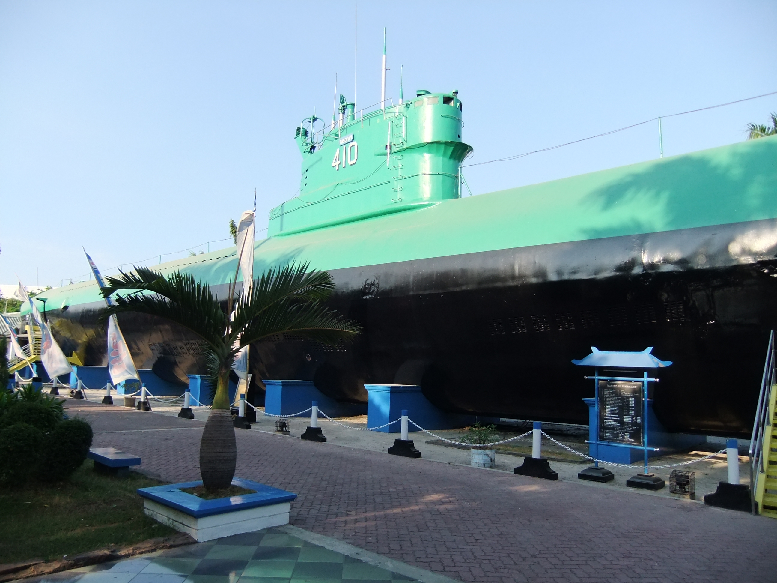 Submarine Monument (KRI Pasopati), Surabaya, Indonesia